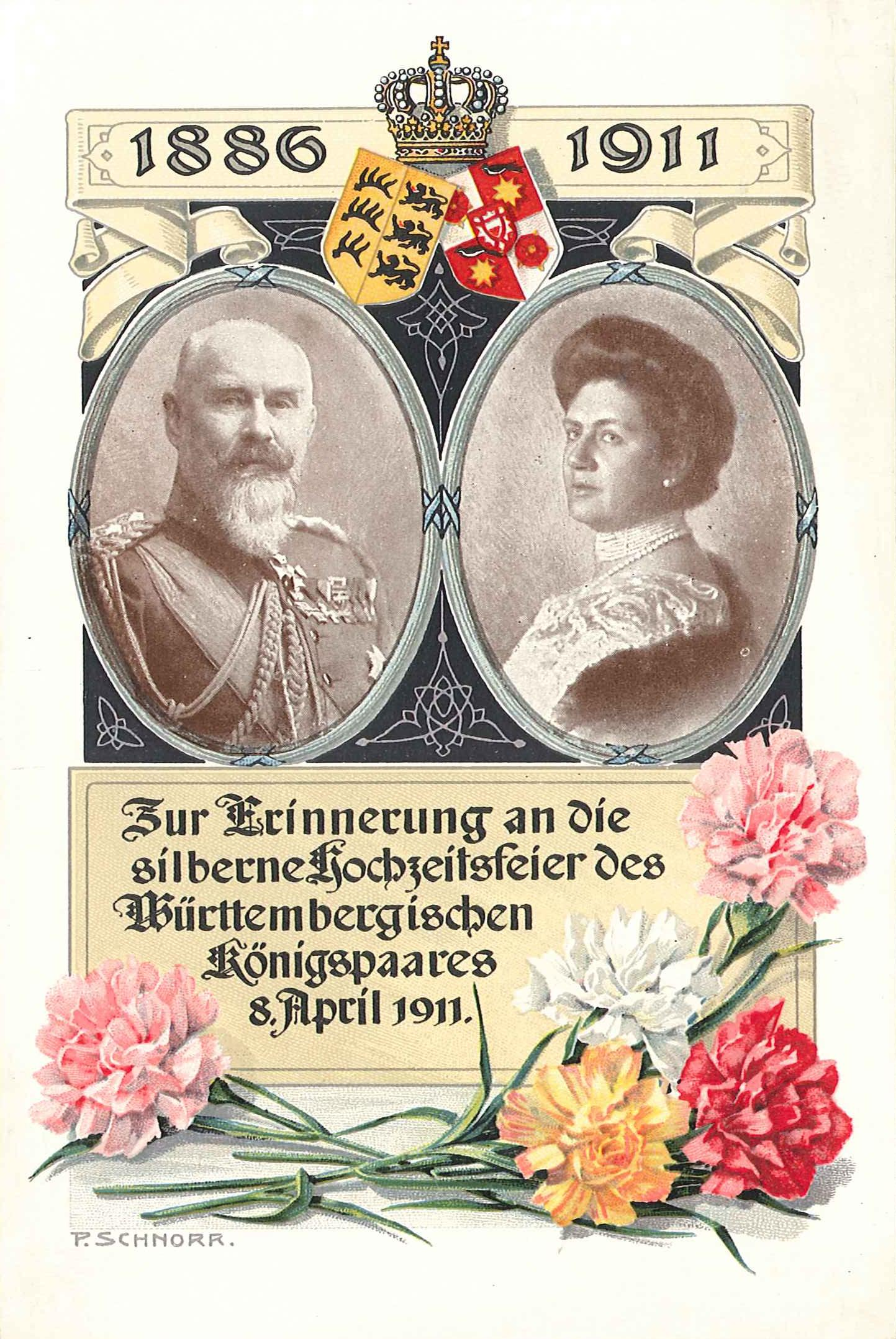 Postcard commemorating the 25th wedding anniversary of King Wilhelm II and Queen Charlotte of Württemberg